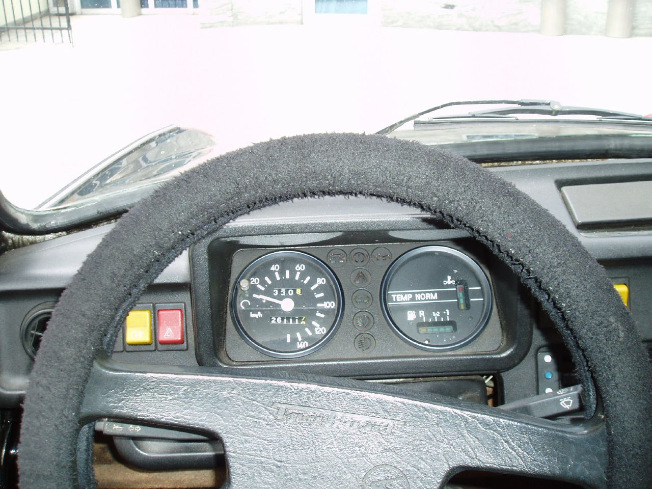 Interior in a Trabant.Trabant